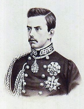 Neurdein frères, Paris - King Umberto I of Italy as crown prince, ca. 1864/70.